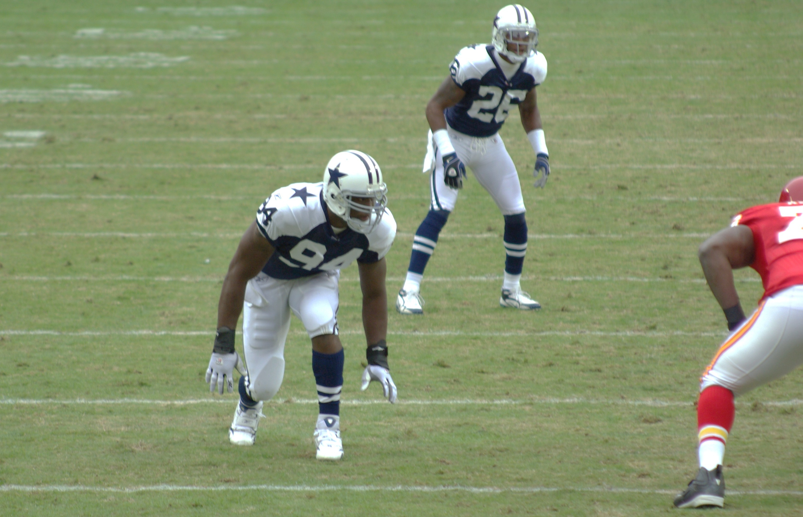 Outside linebacker DeMarcus Ware (No. 94) against the Chiefs in a 2009 game. In the background (No. 26), defensive back Ken Hamlin. Branden Albert (No. 76) at left tackle for the Chiefs.